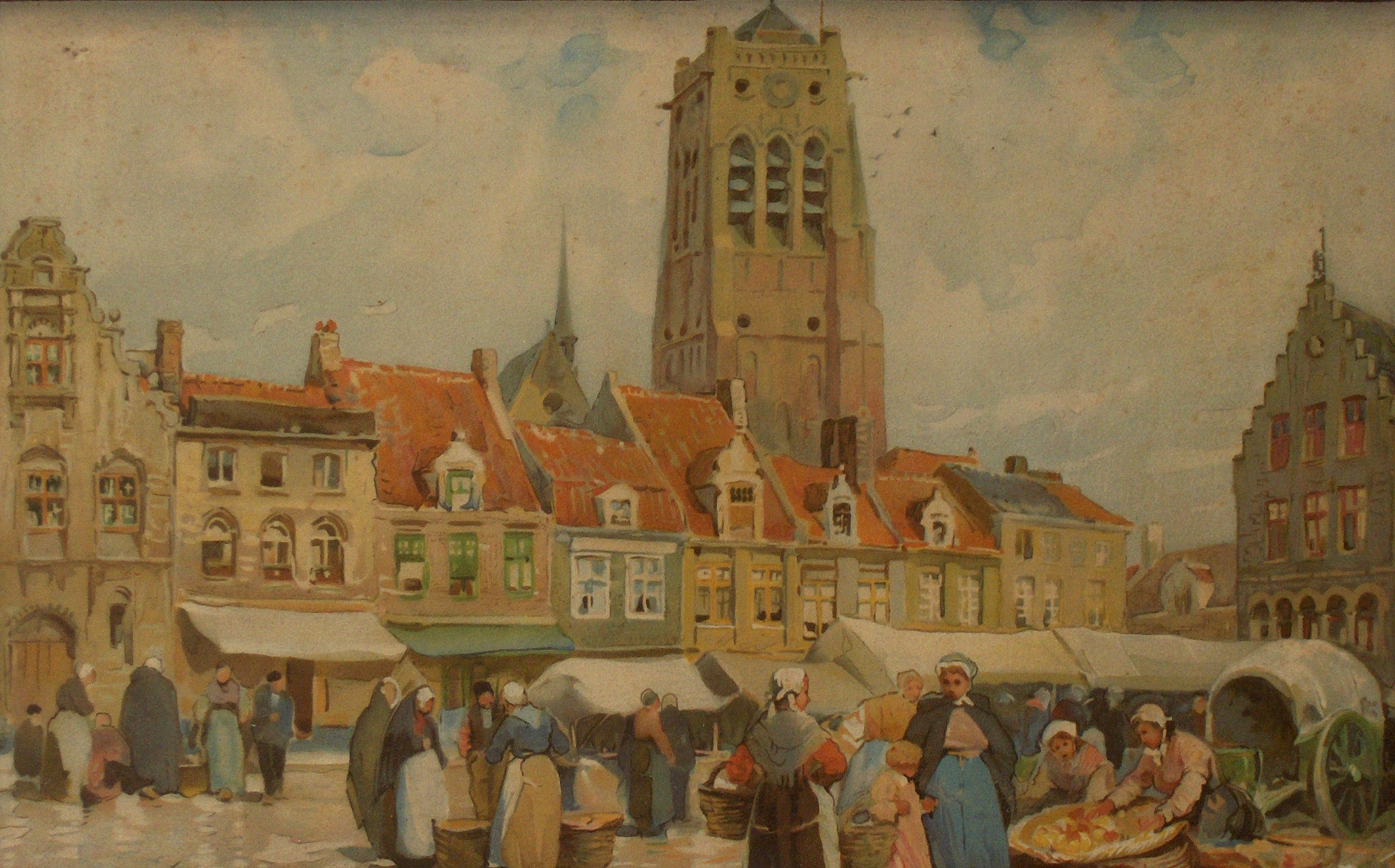 "Market in Furnes", chromolithography by Florimond van Acker (1858-1940); private collection